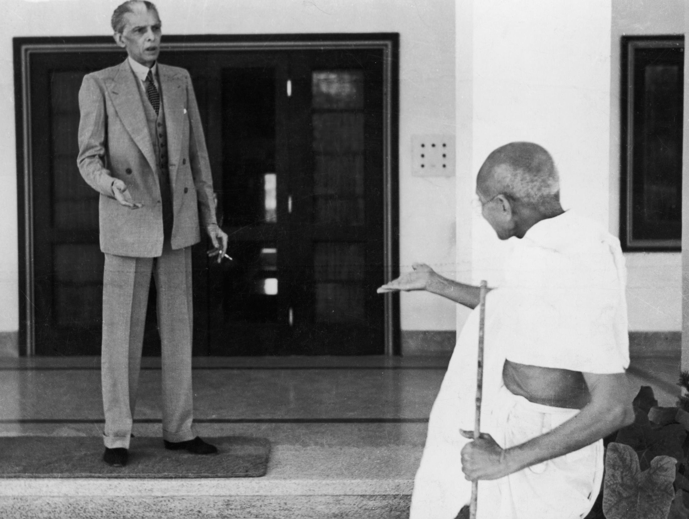 M. A. Jinnah and Mohandas Gandhi